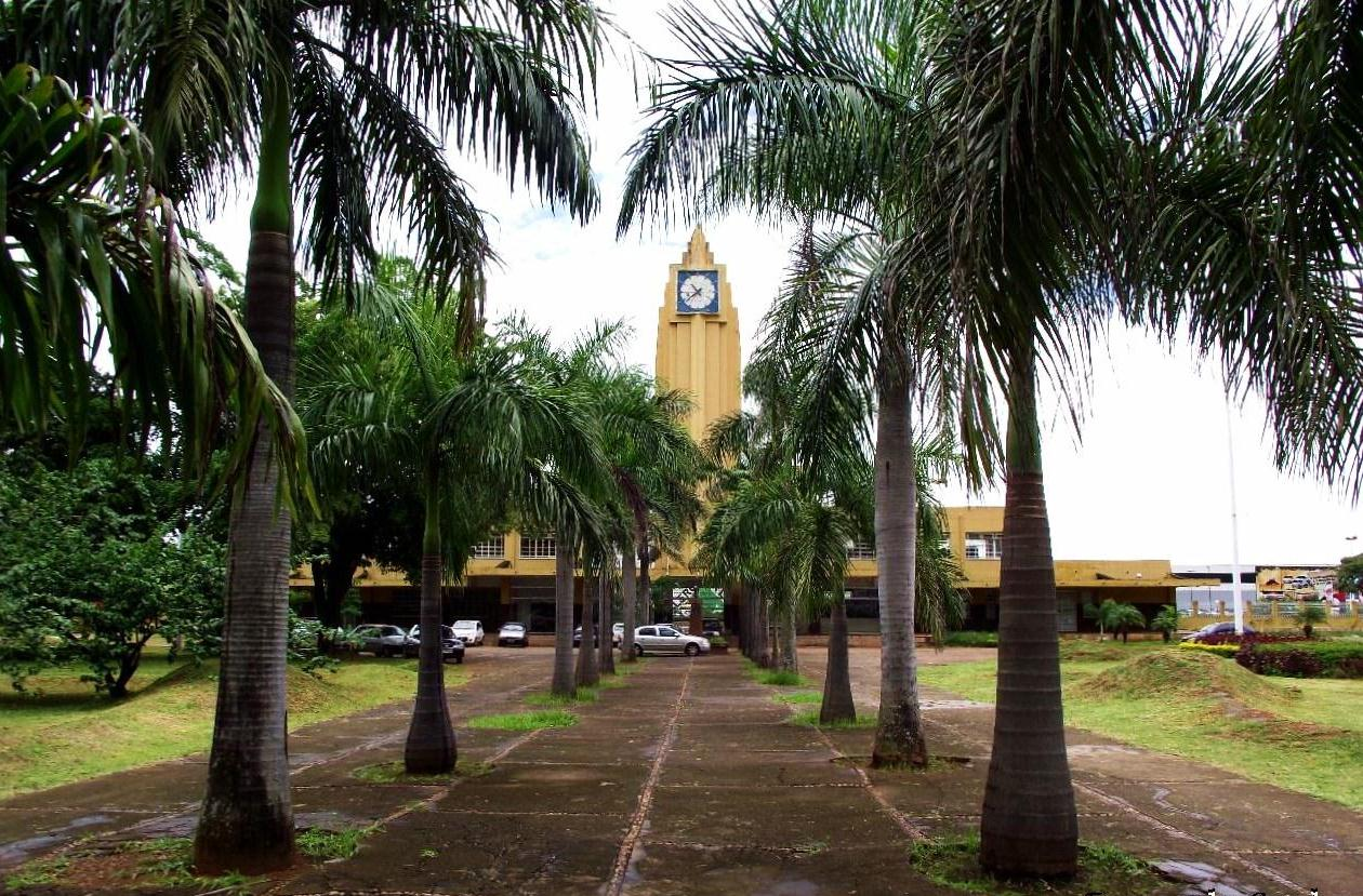 Old Railway Station in Goiânia (GO).